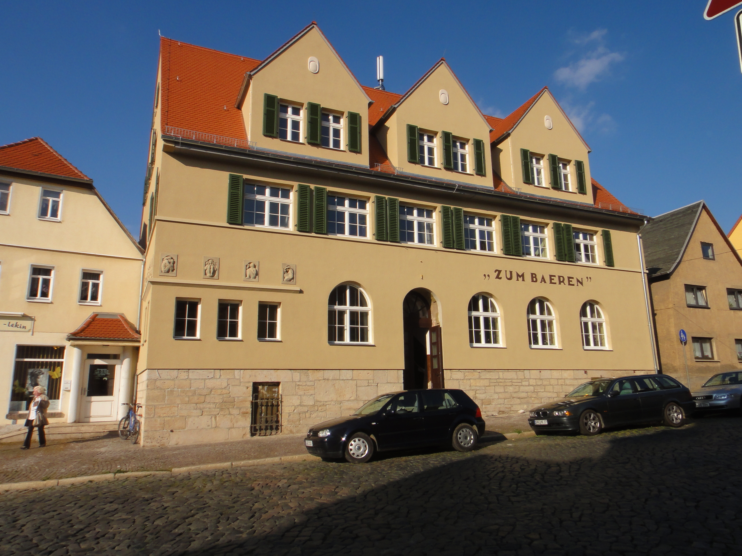 Former Hotel, today club house "ZUM BÄREN"